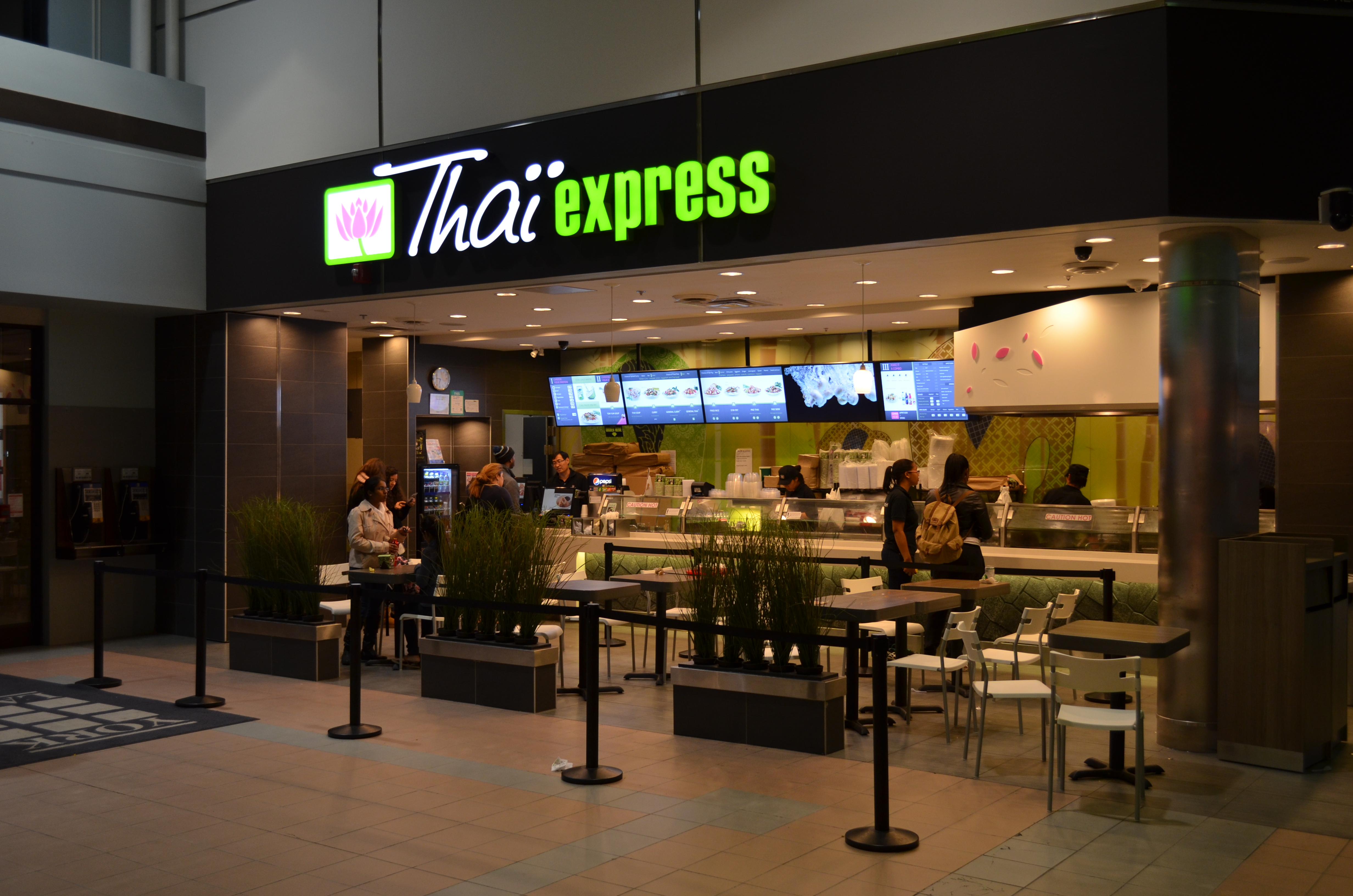 Thai Express at York Lanes